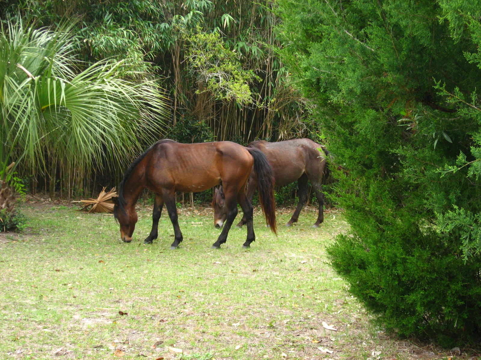 Cumberland Island is home to many wild (feral) horses. This stallion seemed to choose the grounds of Greyfield Inn as it's primary territory. The "resident" horse at Greyfield had a mare friend that was usually around, too. The pair often grazed together. In the Cumberland Island National Seashore, Georgia.